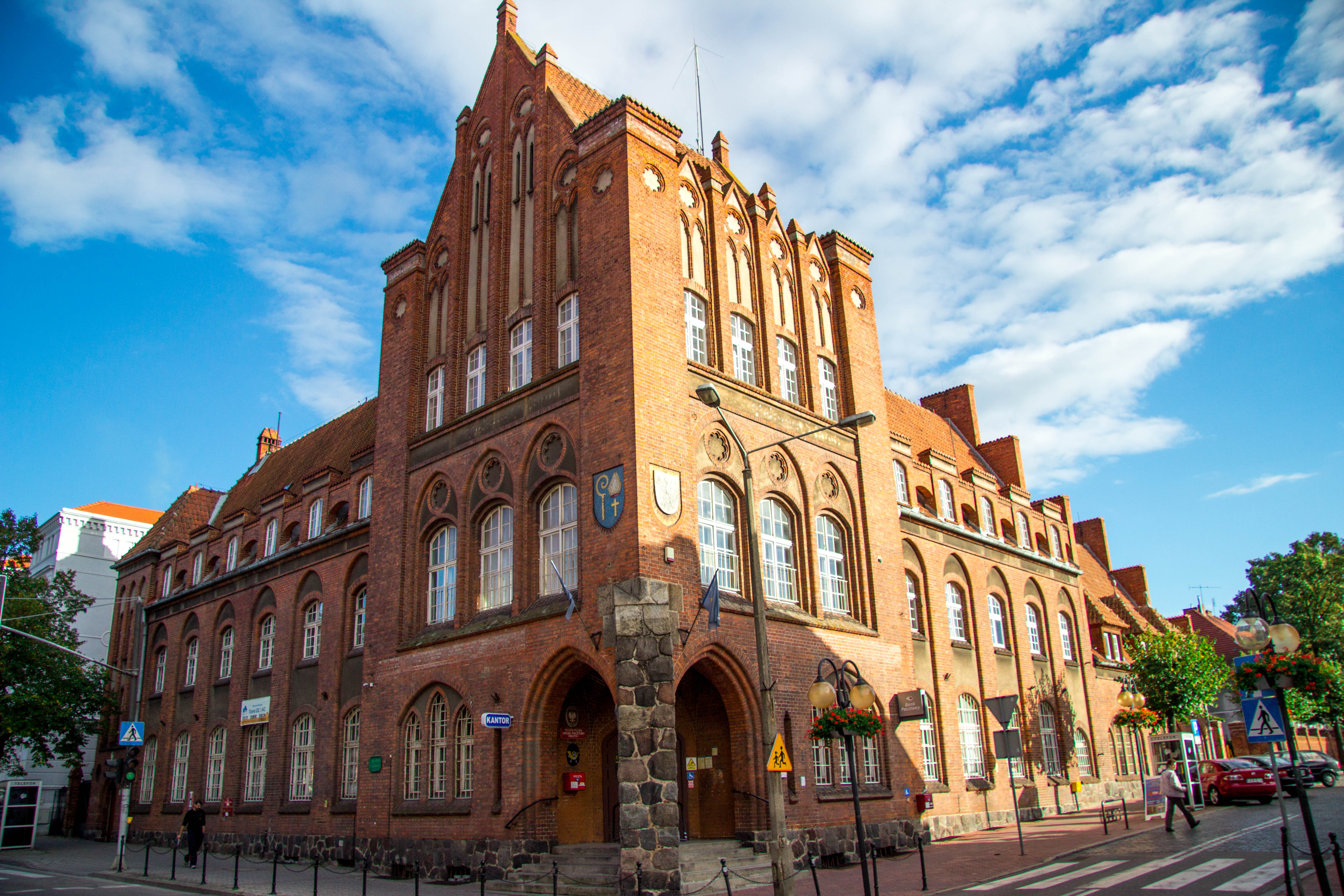 Post Office built in neo-gothic style in the XX century.